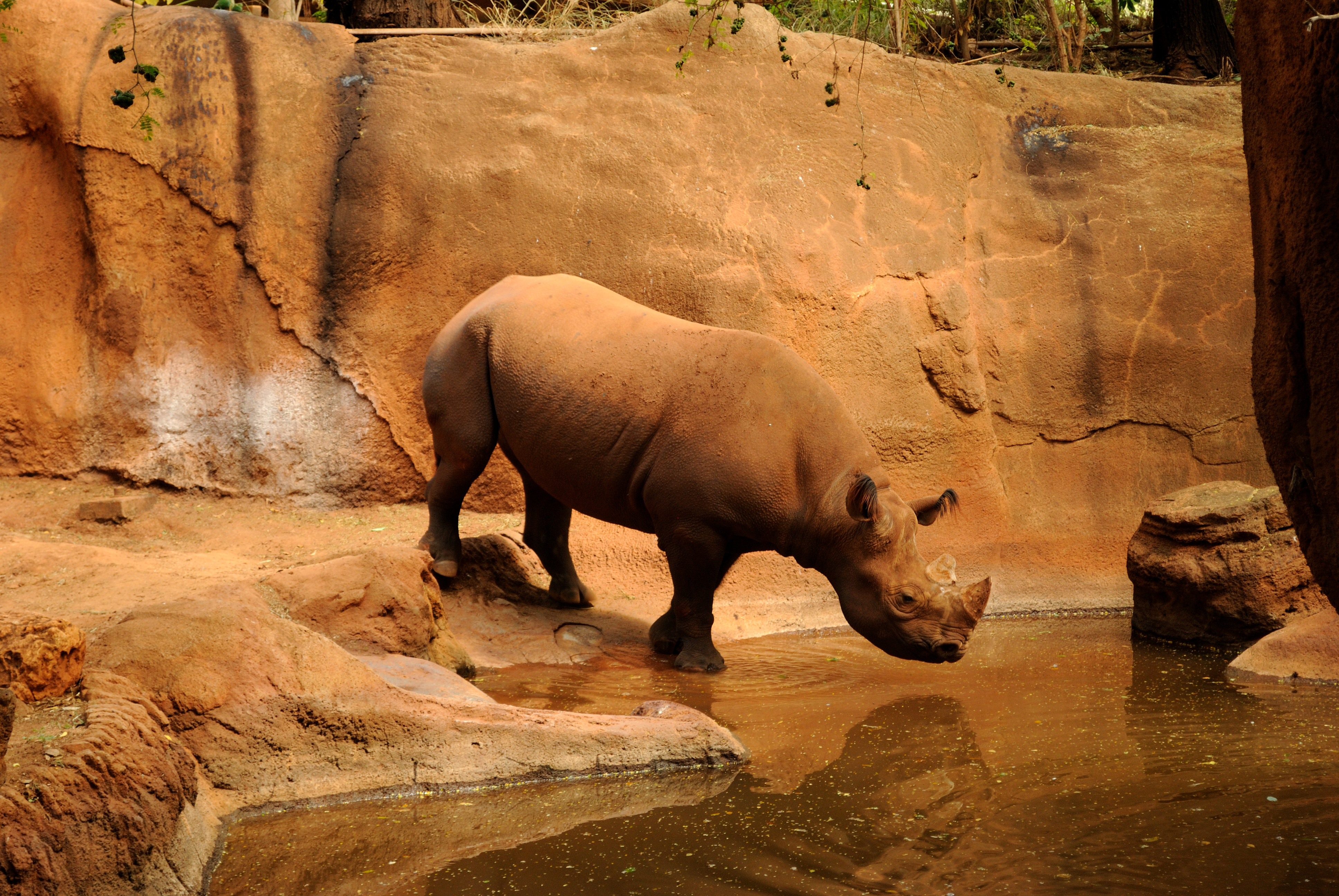 Black Rhino checking out the water